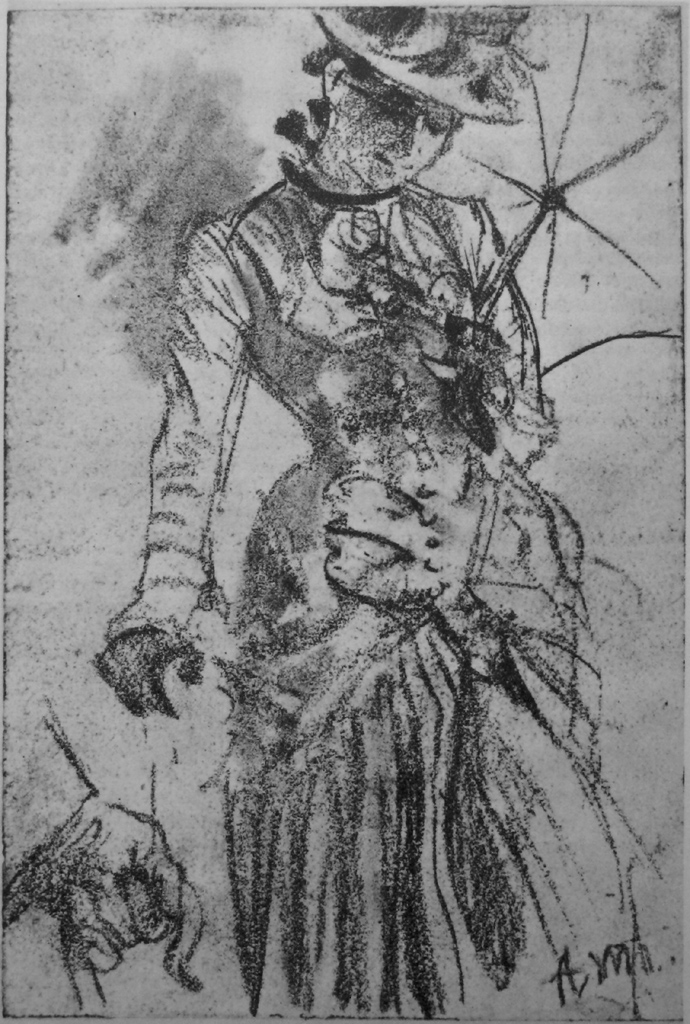 Elegant Berliner woman around 1890